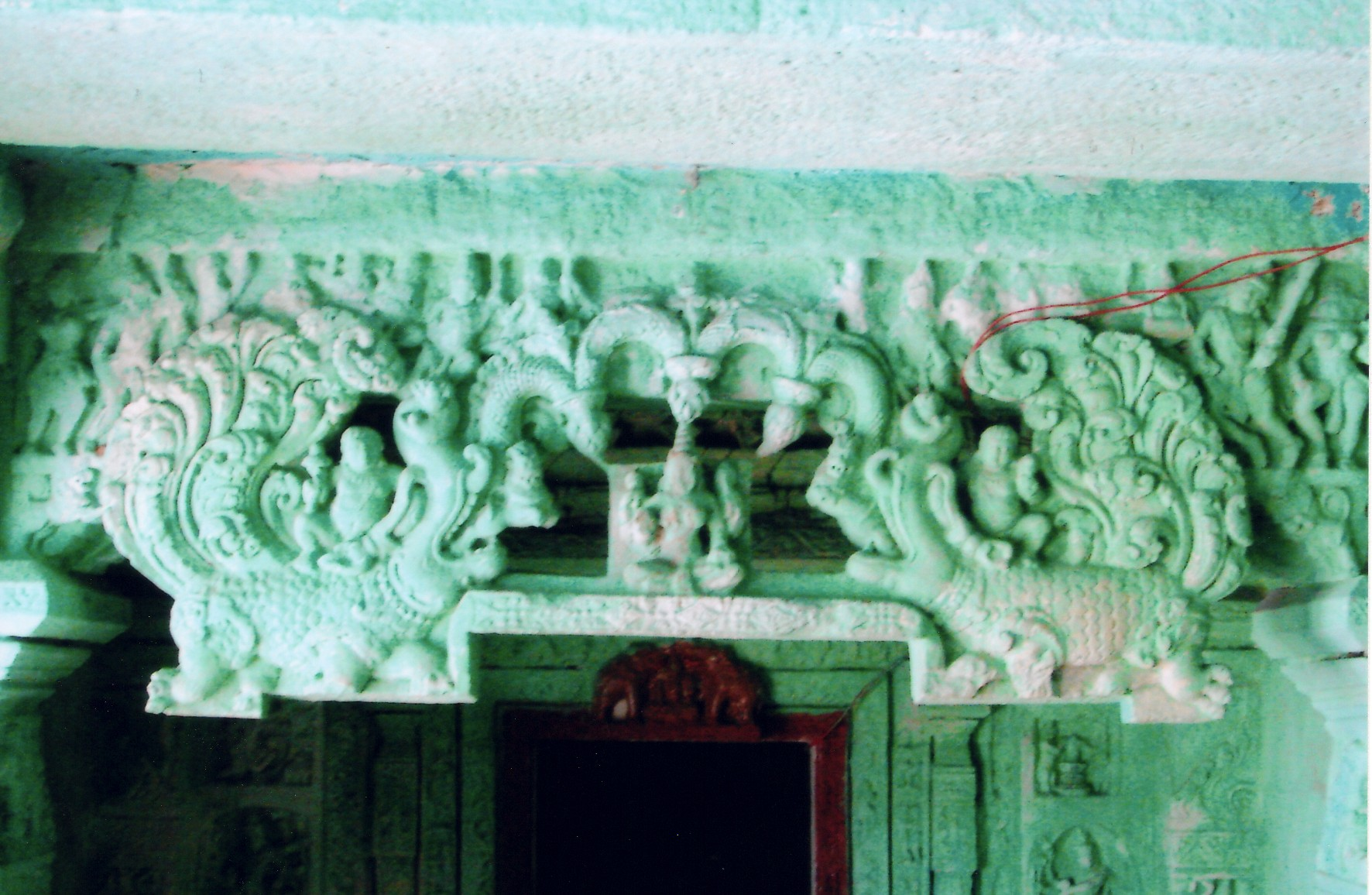 Architrave at Navalinga Temple at Kukkanur (also spelt Kuknur), Koppal district, Karnataka state, India